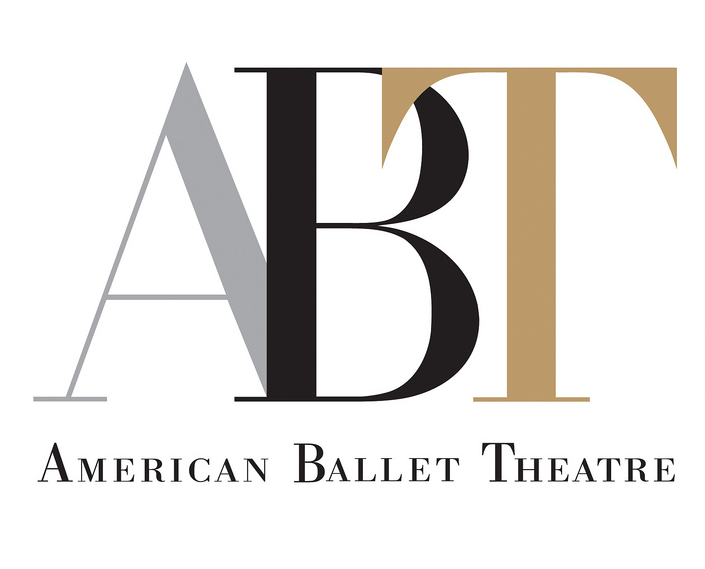 Abtlogo